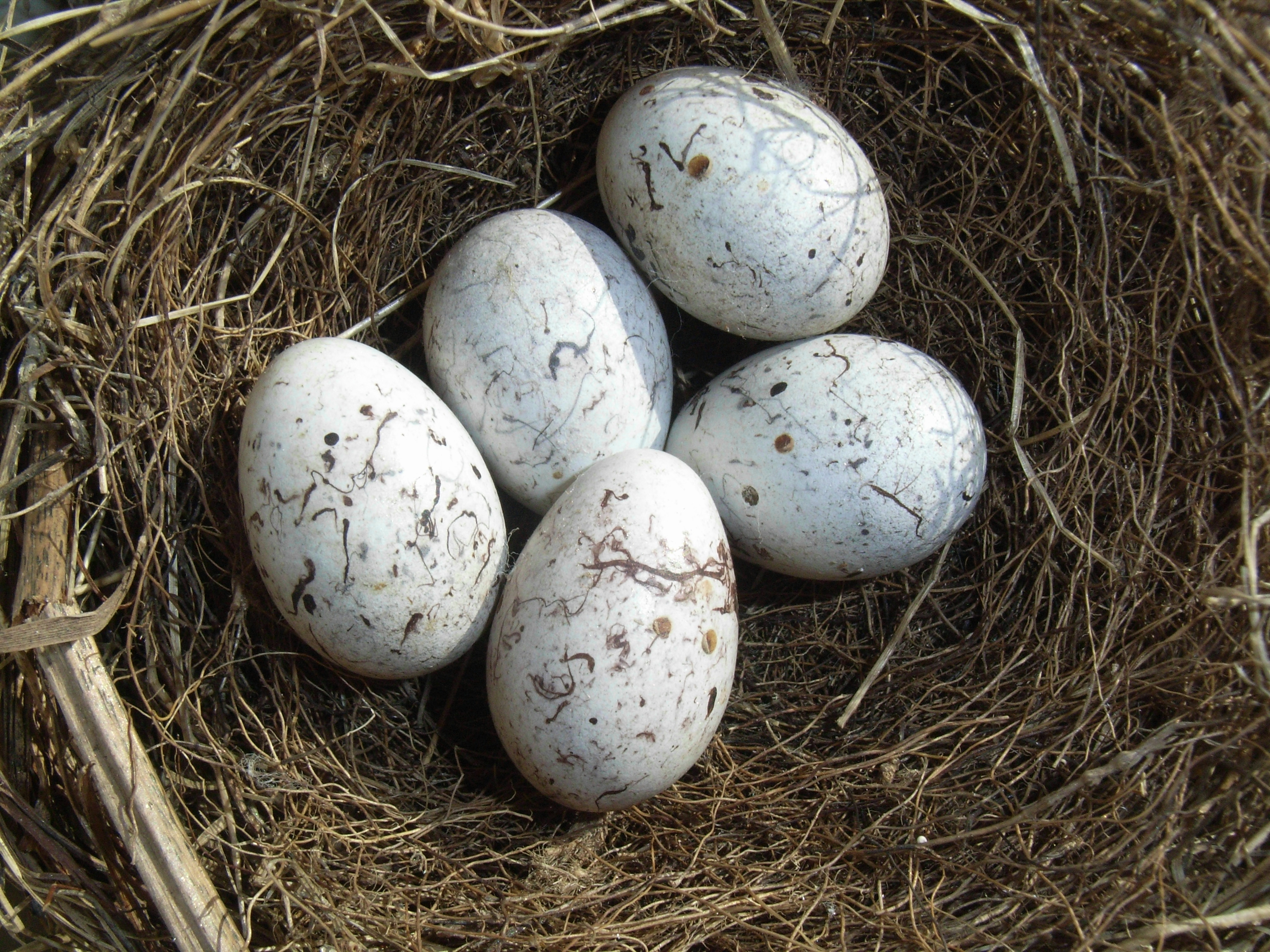 Emberiza citrinella egg clutch